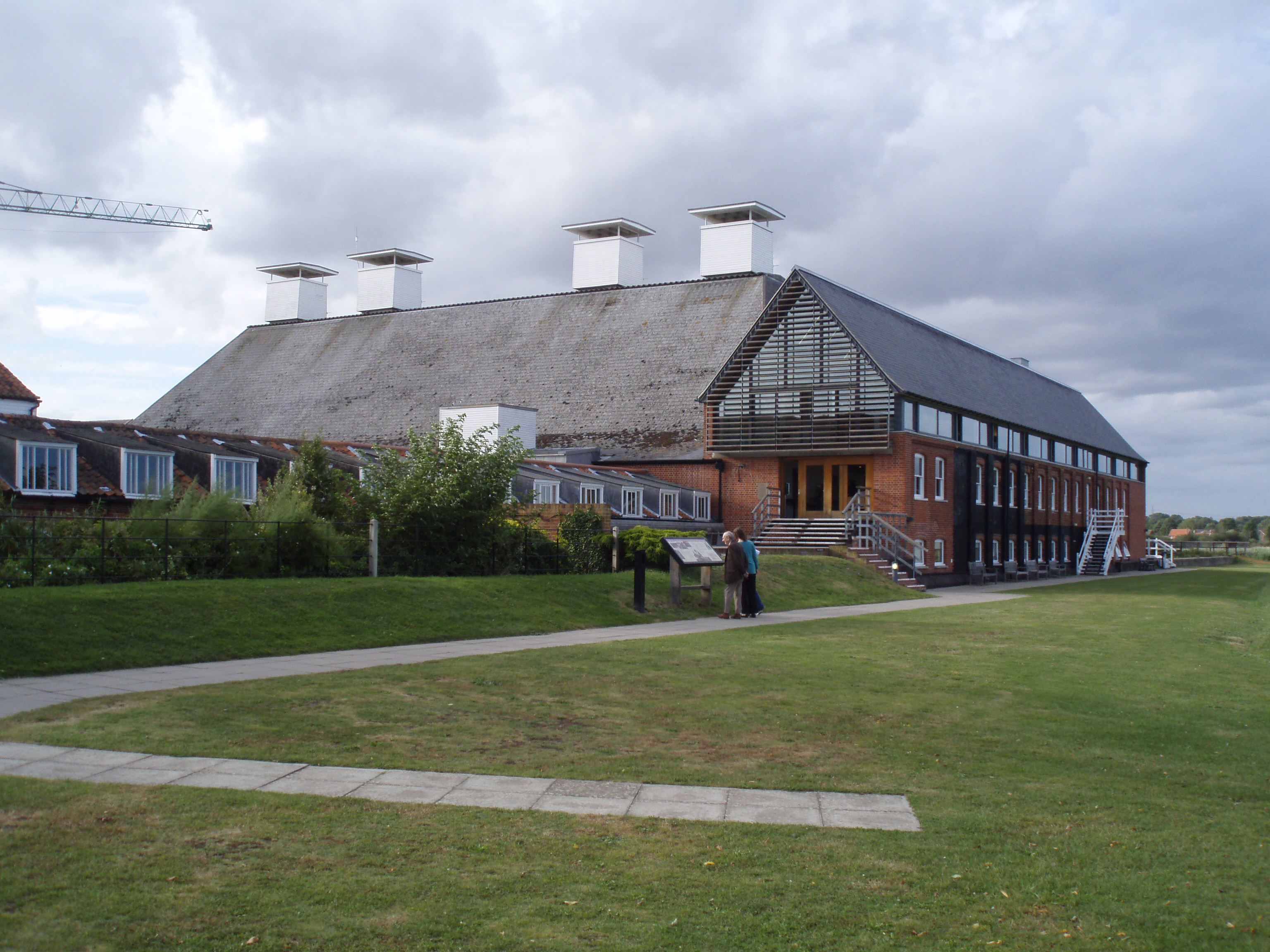 Concert hall, Maltings, Snape, Suffolk, 15 August 2007